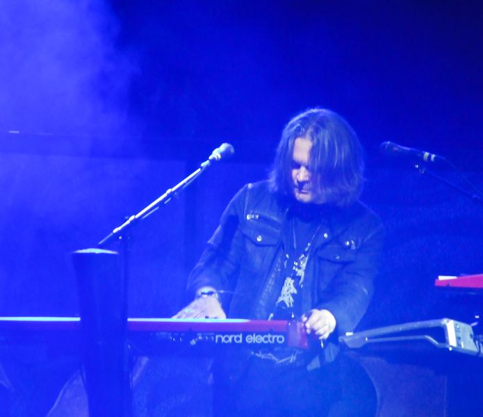 Mic Michaeli, keyboardist of the Swedish rock band Europe, performing in Festivalna hall, Sofia during their Bag of Bones tour 2012.